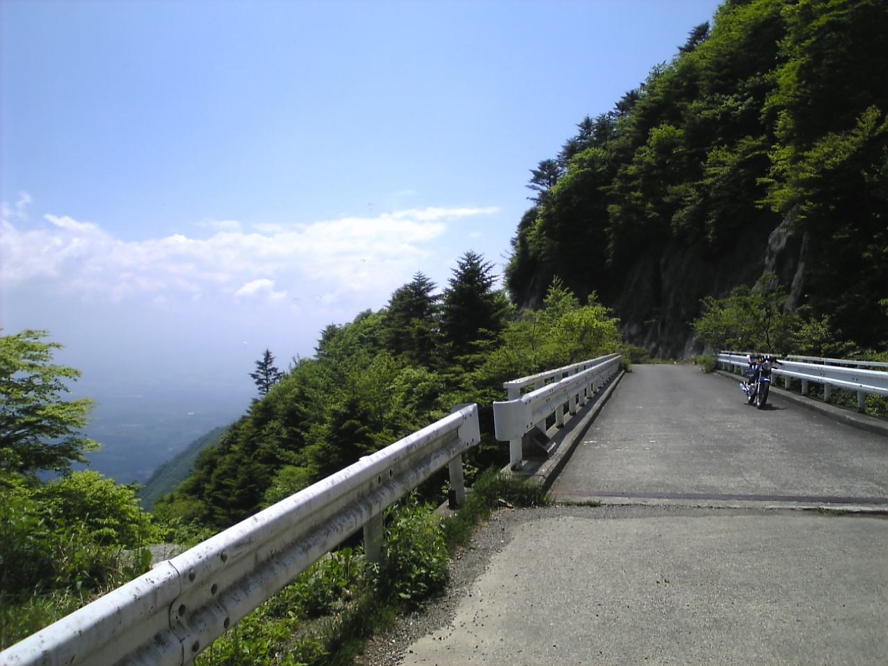 A Road of Japan.